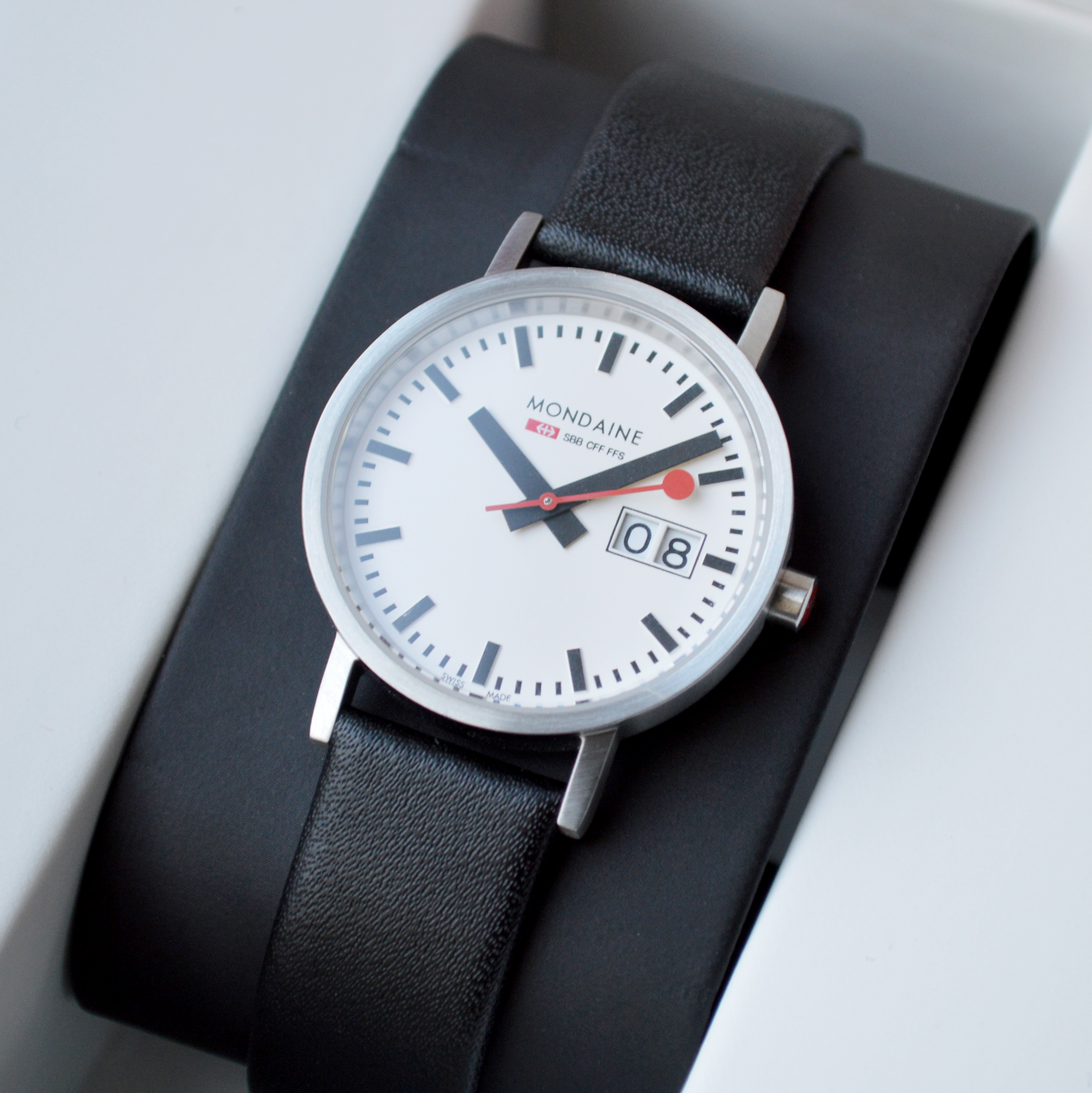 Close-up of a Mondaine Classic A669.30008.16SBO watch in its case.